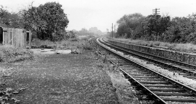 Remains of Bengeworth Station, Hampton, Worcestershire, Great Britain. View Sw, towards Ashchurch; Barnt Green - Evesham - Ashchurch line. Station closed 8/6/53, line closed 17/6/63. (See also, for example, SO9835 : Beckford Station ).